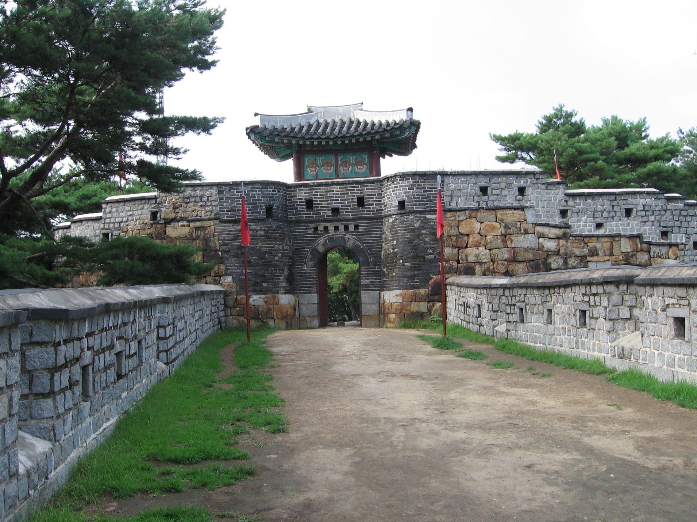 Part of the city wall of Suwon. The way to a guard tower is protected by an extra gate; 2013-04-29: it seems that the 'Aussichtsturm' is Seonamgangnu, while the 'Tor' is Seonamanmun